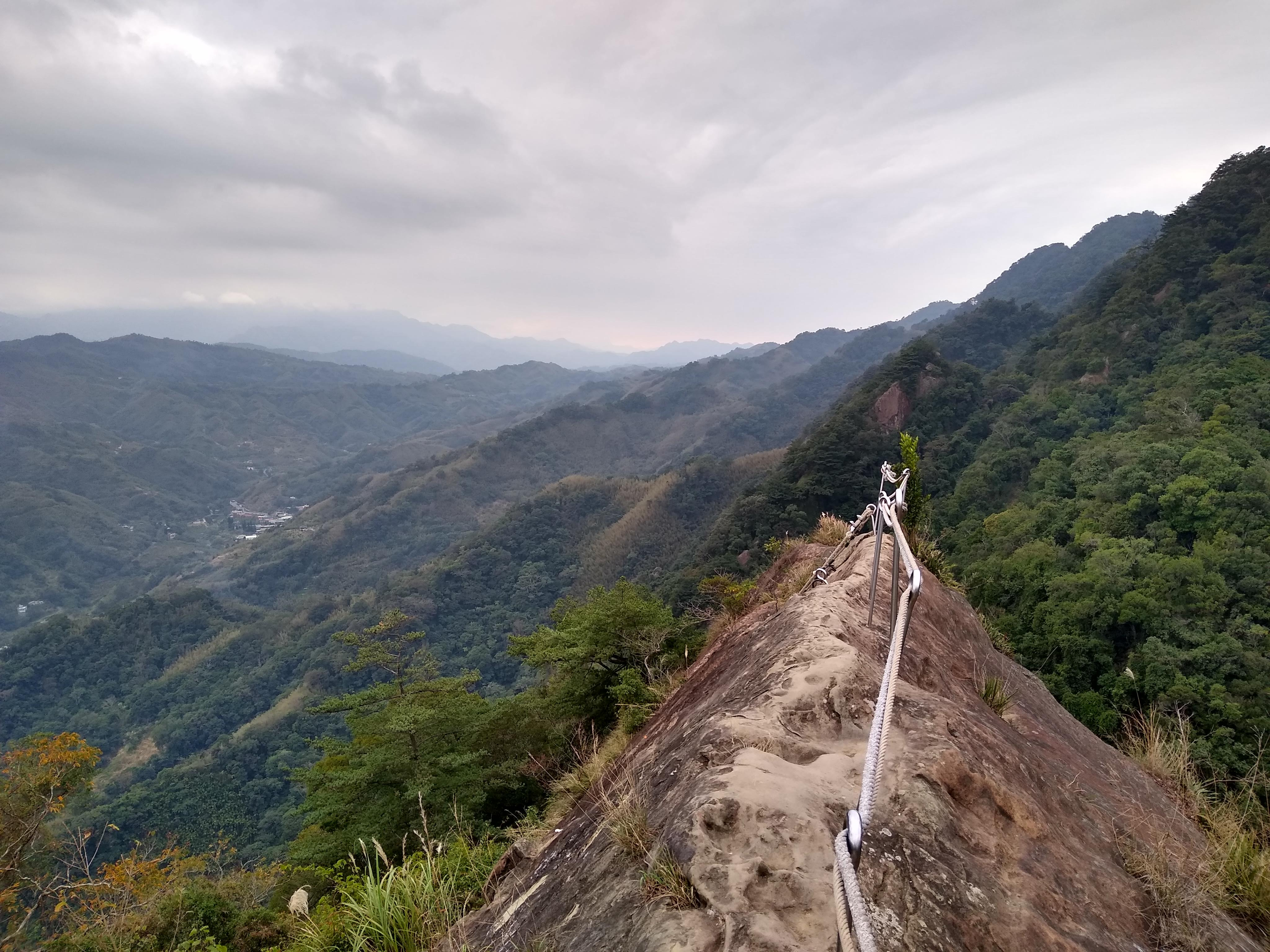 On the Wuliaojian (五寮尖) trail in Sanxia District, New Taipei.